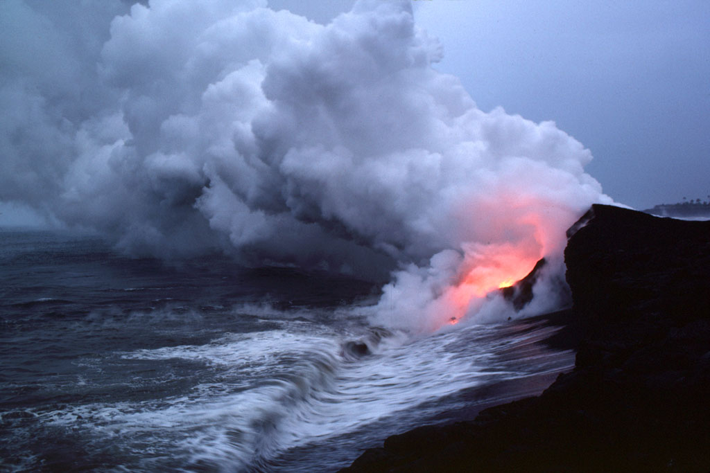 Glow of lava is reflected in steam plume at water’s edge east of Kupapa‘u Point. A littoral cone formed by spatter from steam explosions sits on top of the sea cliff to the right.